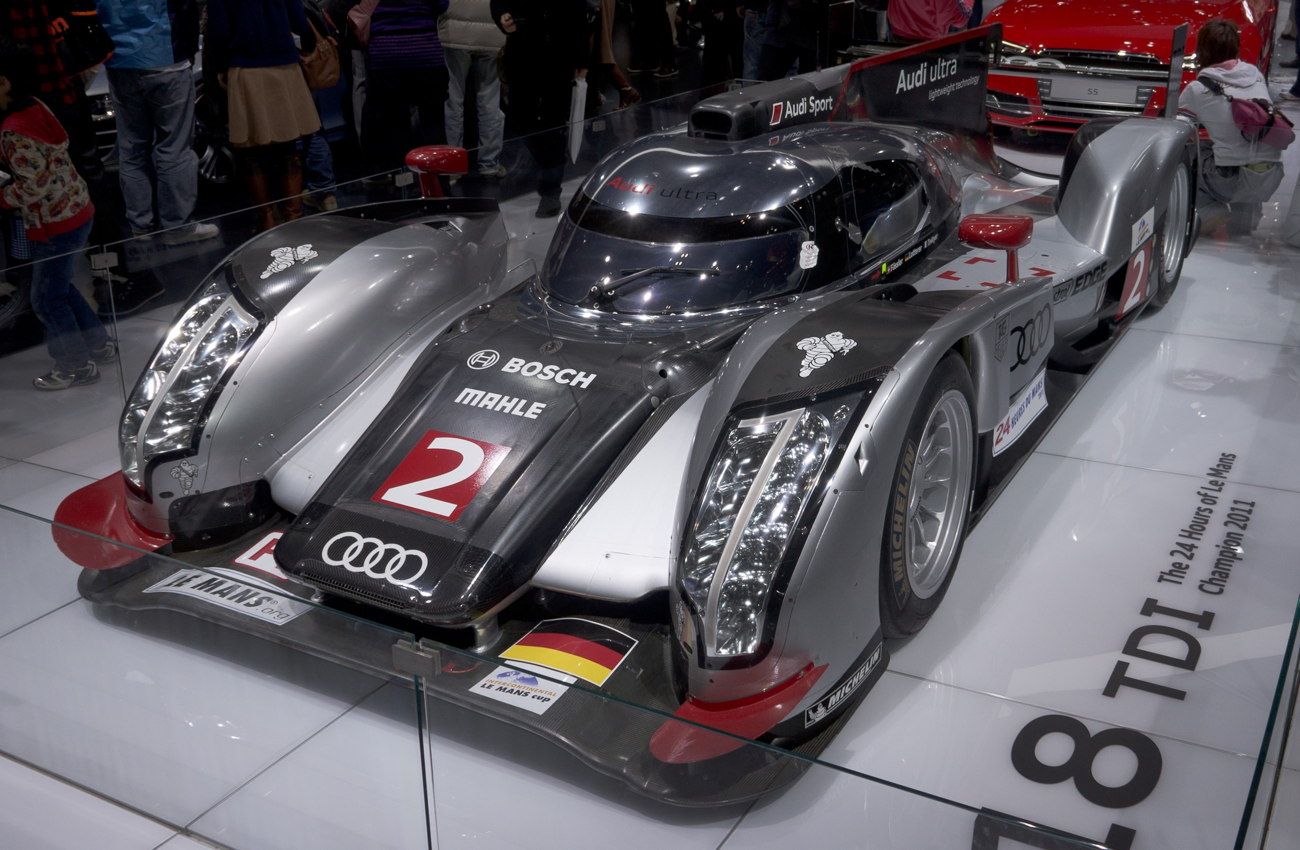 Tokyo Motor Show 2011: Audi R18 TDI show car.